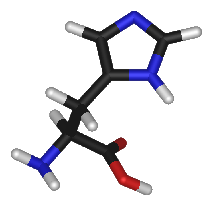 S- or L-histidine.